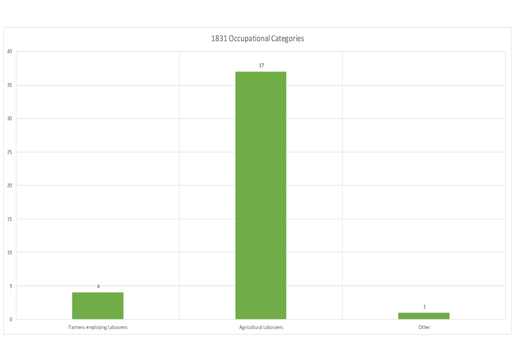 Graph to show the occupation of residents in Edgcott as of 1831